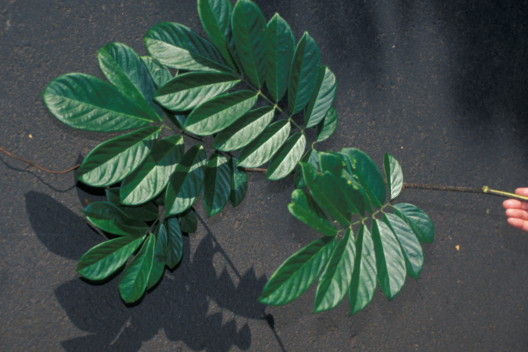 Derris elliptica (leaves). Location: Maui, Hana Hwy